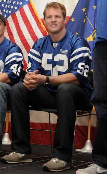 Seven NFL players, including three from the Indianapolis Colts, visited Soldiers and their families at the NFL Salute to Service military appreciation event at Camp Atterbury Joint Maneuver Training Center Feb. 2. At the event, Soldiers and their families were given the opportunity to enjoy live music, meet professional football players and participate in several activities and games.